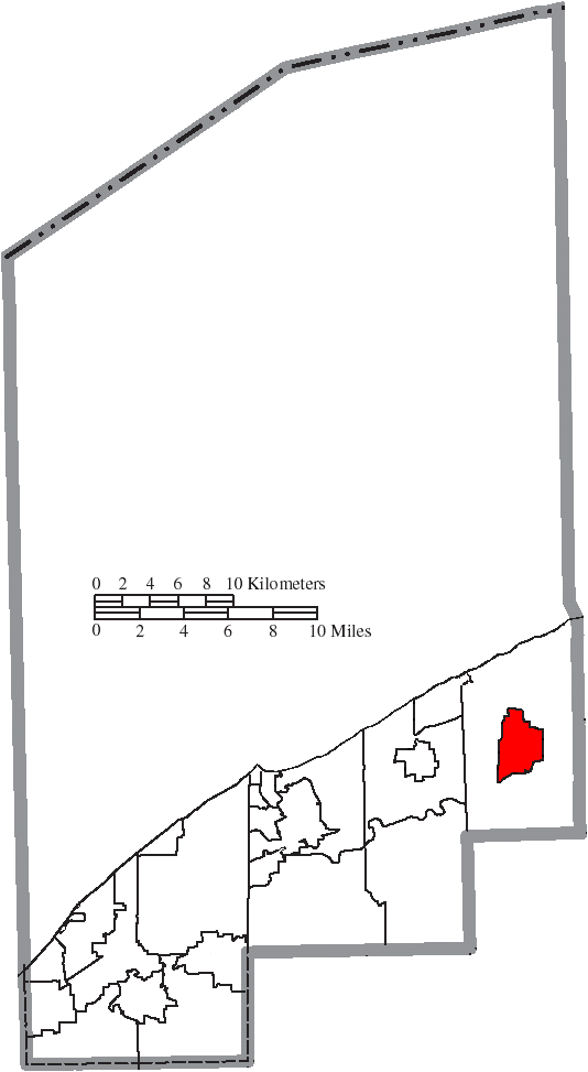 Map of the municipal and township boundaries of Lake County, Ohio, United States, as of the 2000 census, with the location of the village of Madison highlighted. Township borders are shown only in unincorporated areas in order to differentiate incorporated and unincorporated areas more clearly.